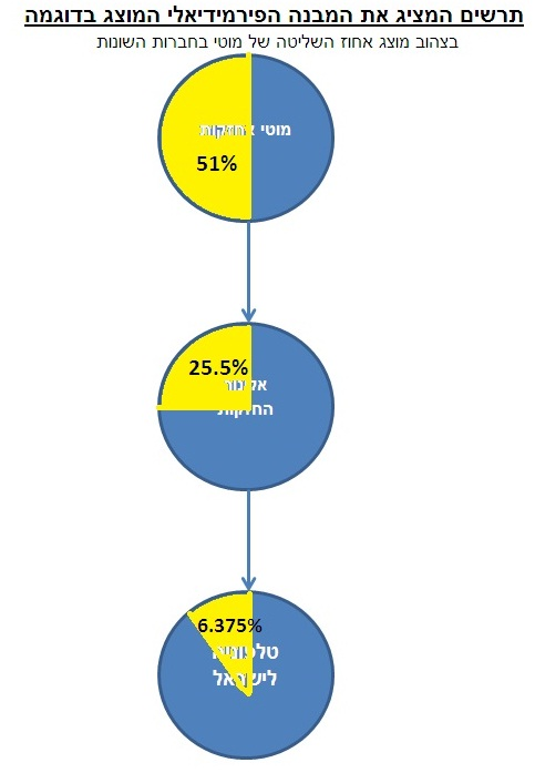 תרשים המתאר את פירמידת השליטה בדוגמא